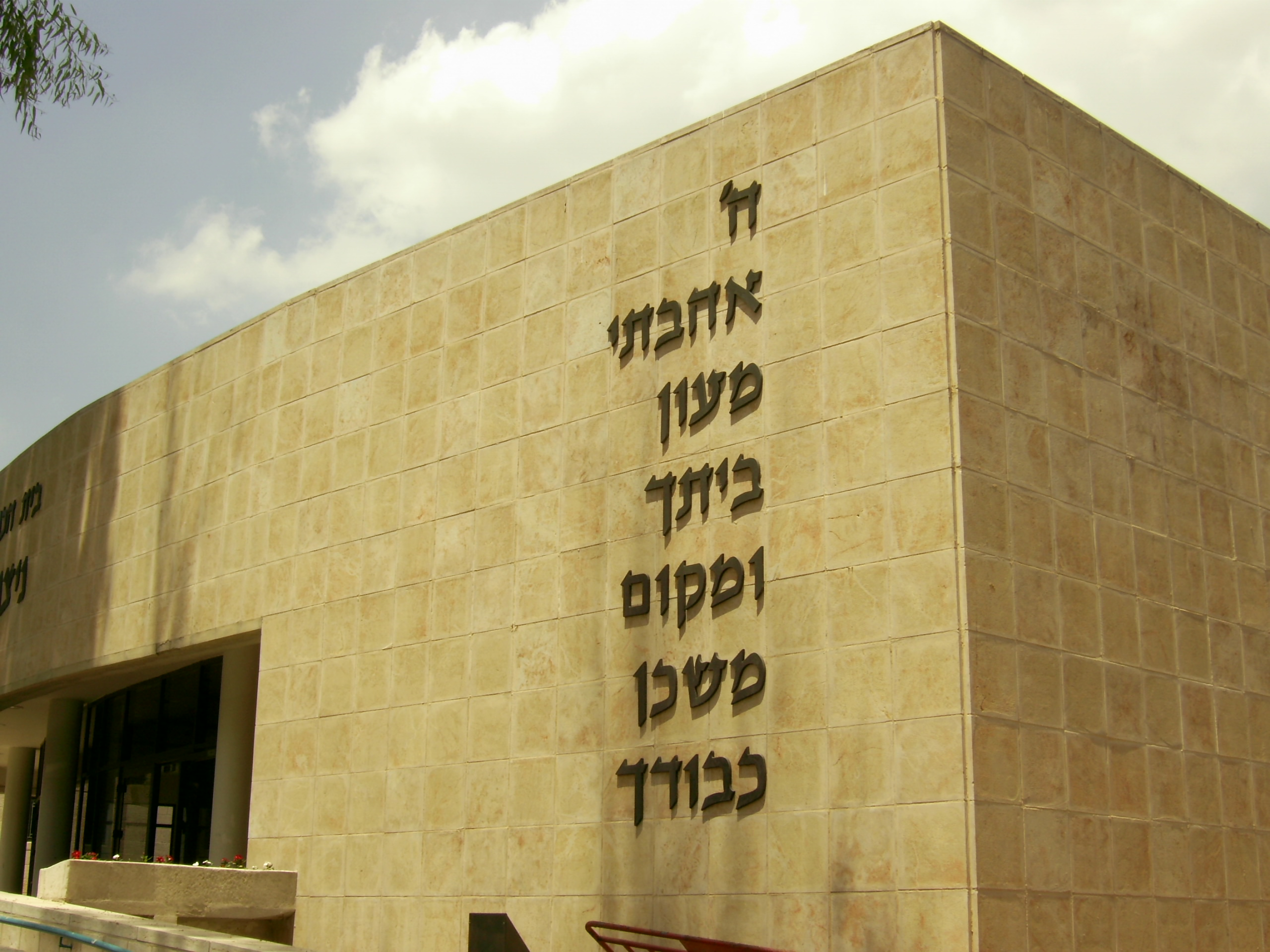 Jerusalem, 1 Asher street, Nitsanim Synagogue. Psalms 26:8 Lord , I love the house where you live, the place where your glory dwells. בית הכנסת ניצנים פסוק מהתנך על בנין בירושלים יְהוָה אָהַבְתִּי מְעוֹן בֵּיתֶךָ וּמְקוֹם מִשְׁכַּן כְּבוֹדֶךָ. Jerusalem